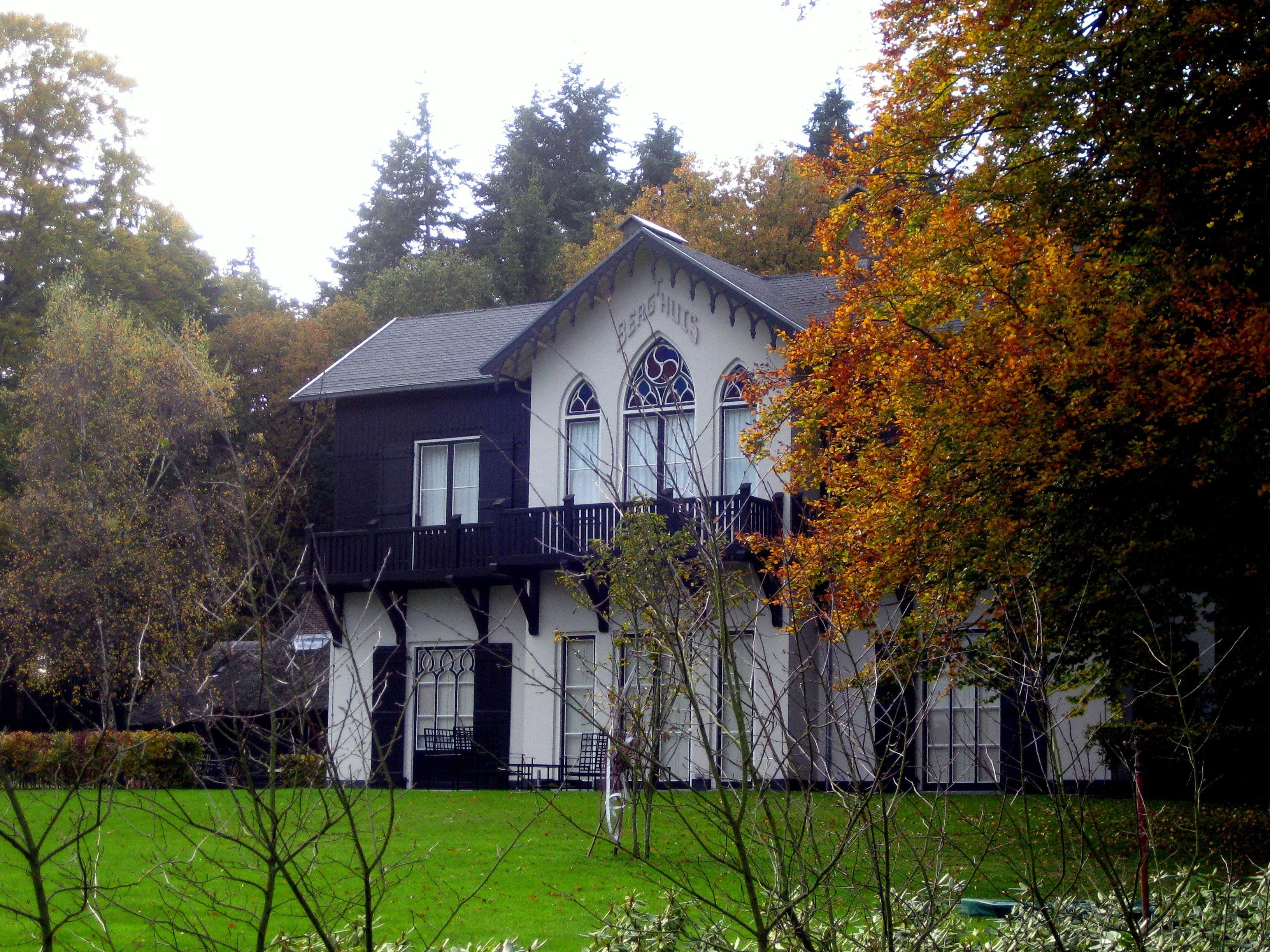 The "Berghuis", Henschoten estate, Woudenberg, Netherlands